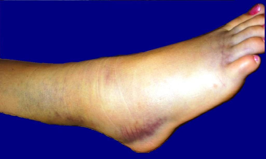 Ankle strain 3rd degree